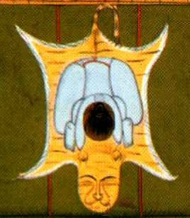 Illustration of Kurmasana yoga pose (not necessarily the same as the current pose of that name) from manuscript of, 1830.